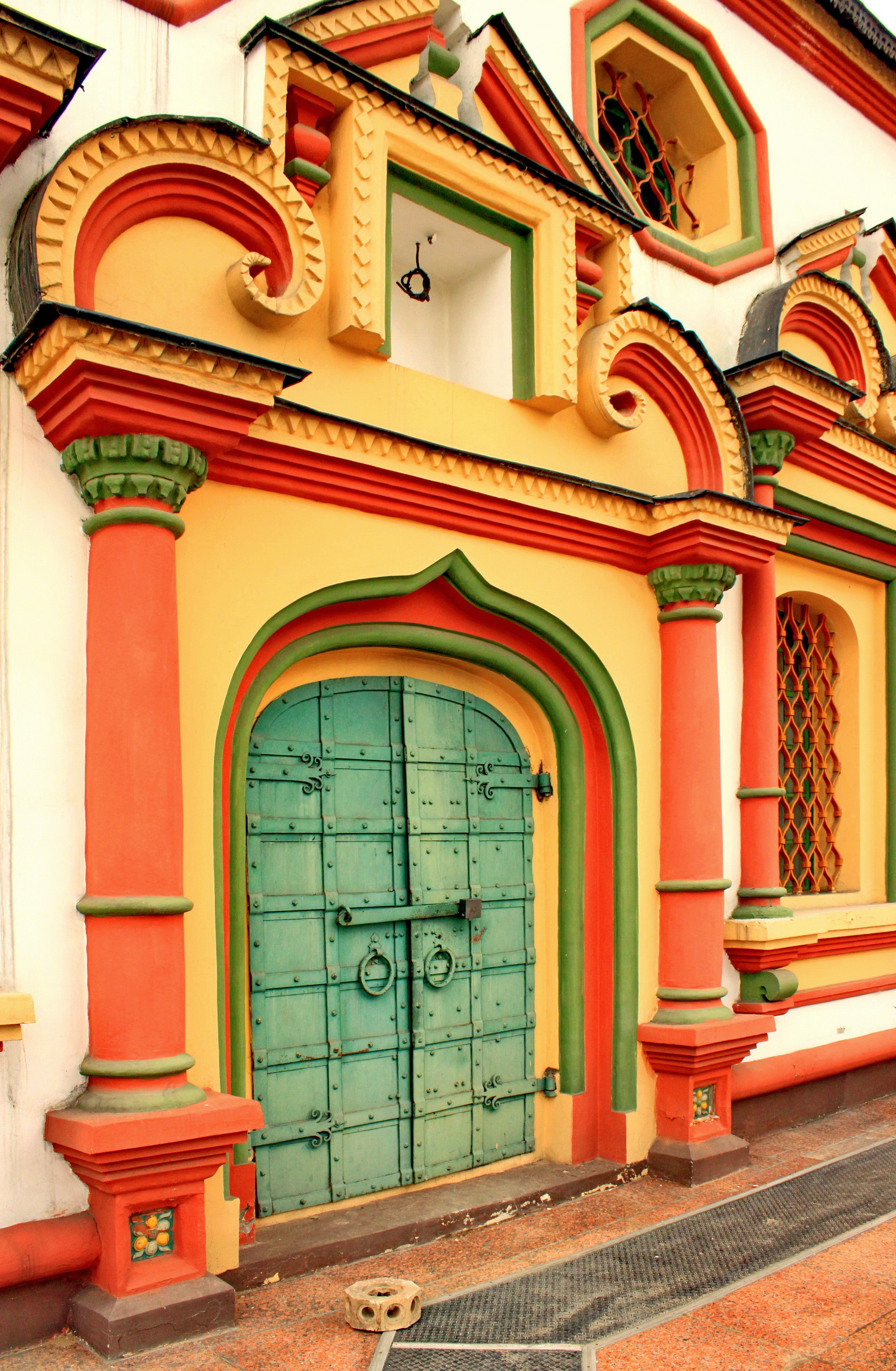 Church of the Epiphany. Irkutsk, Russia.